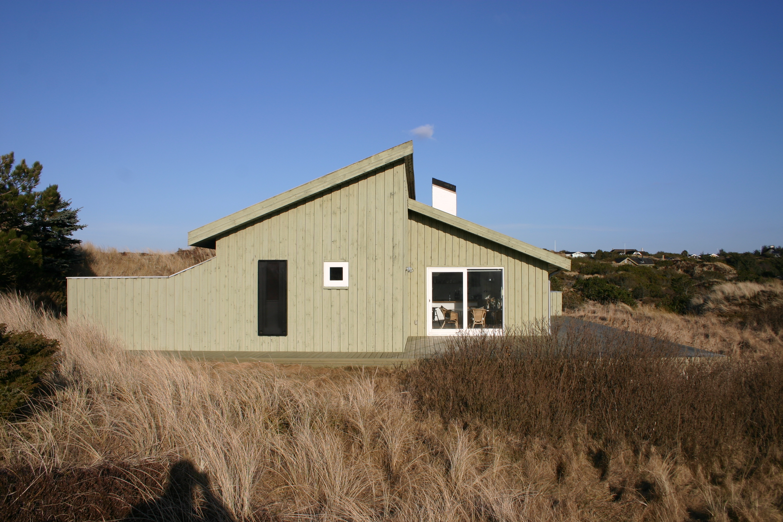 solar air collector